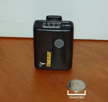 Personal lightning detectors